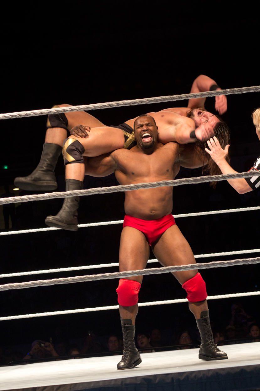 Ezekiel Jackson performing a Torture Rack submission hold on Drew McIntyre at a WWE house show in January 2012 in Montgomery, Alabama.